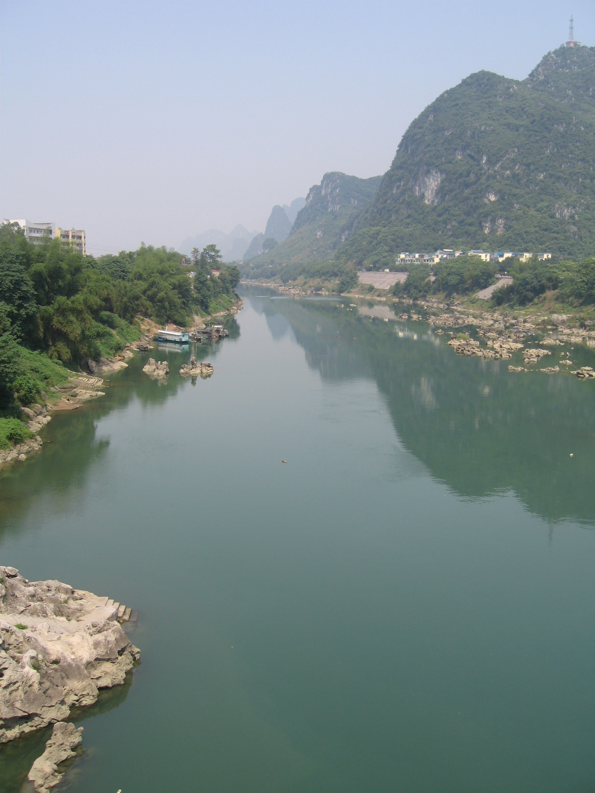 The Long Jiang in Yizhou.